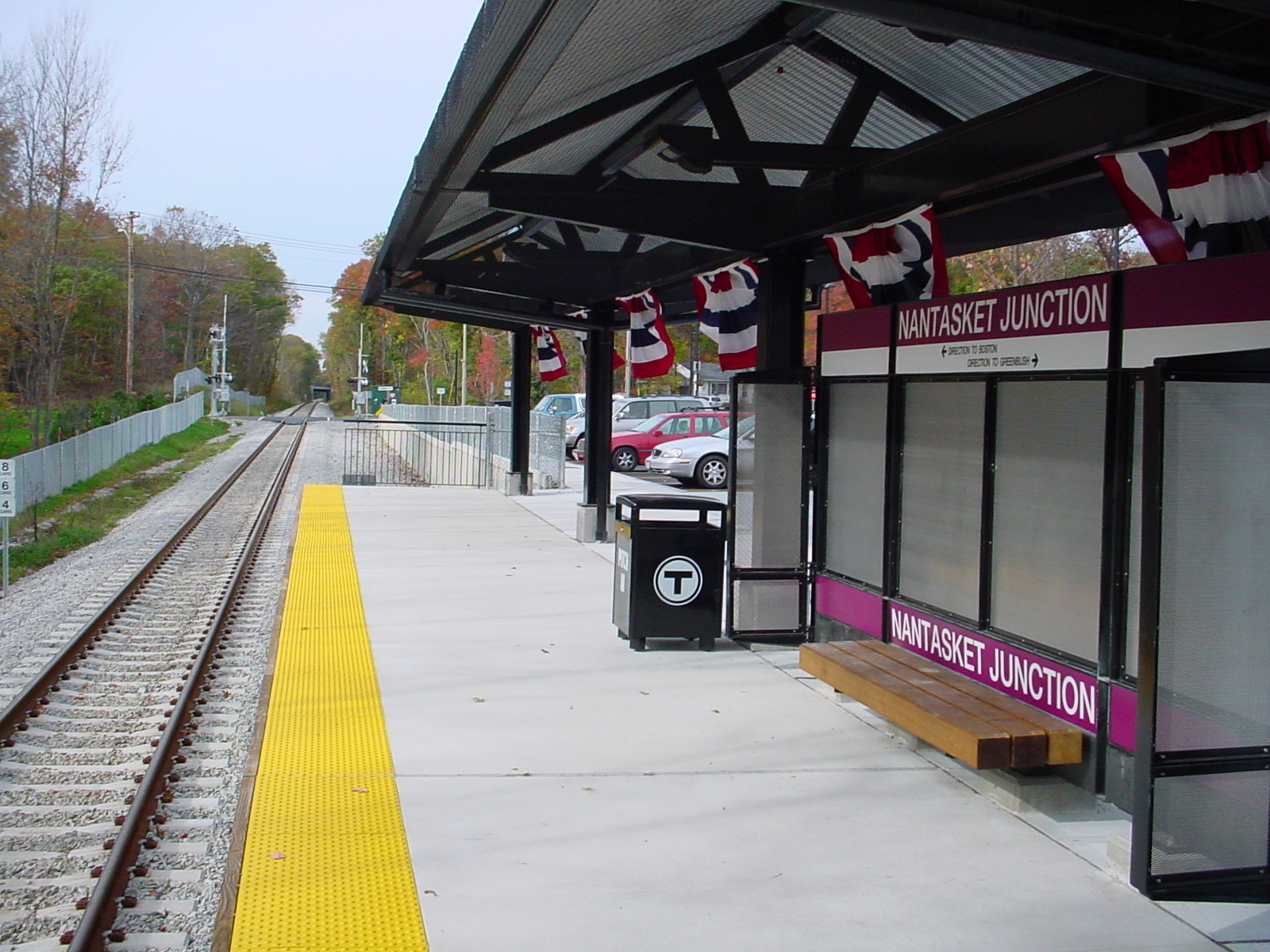 Inbound view from the Nantasket Junction station.